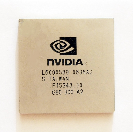 GPU NVidia G80, BGA